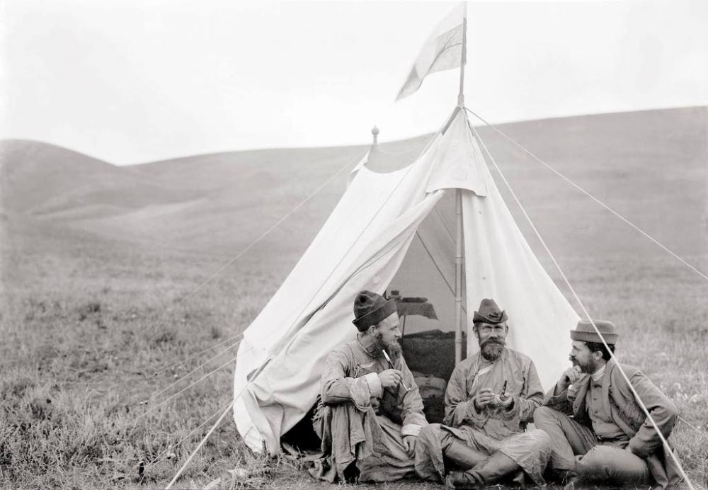 Three finnish scientists at Mongolians Khangai Mountains; from left to right Sakari Pälsi, G. J. Ramstedt and J. G. Granö